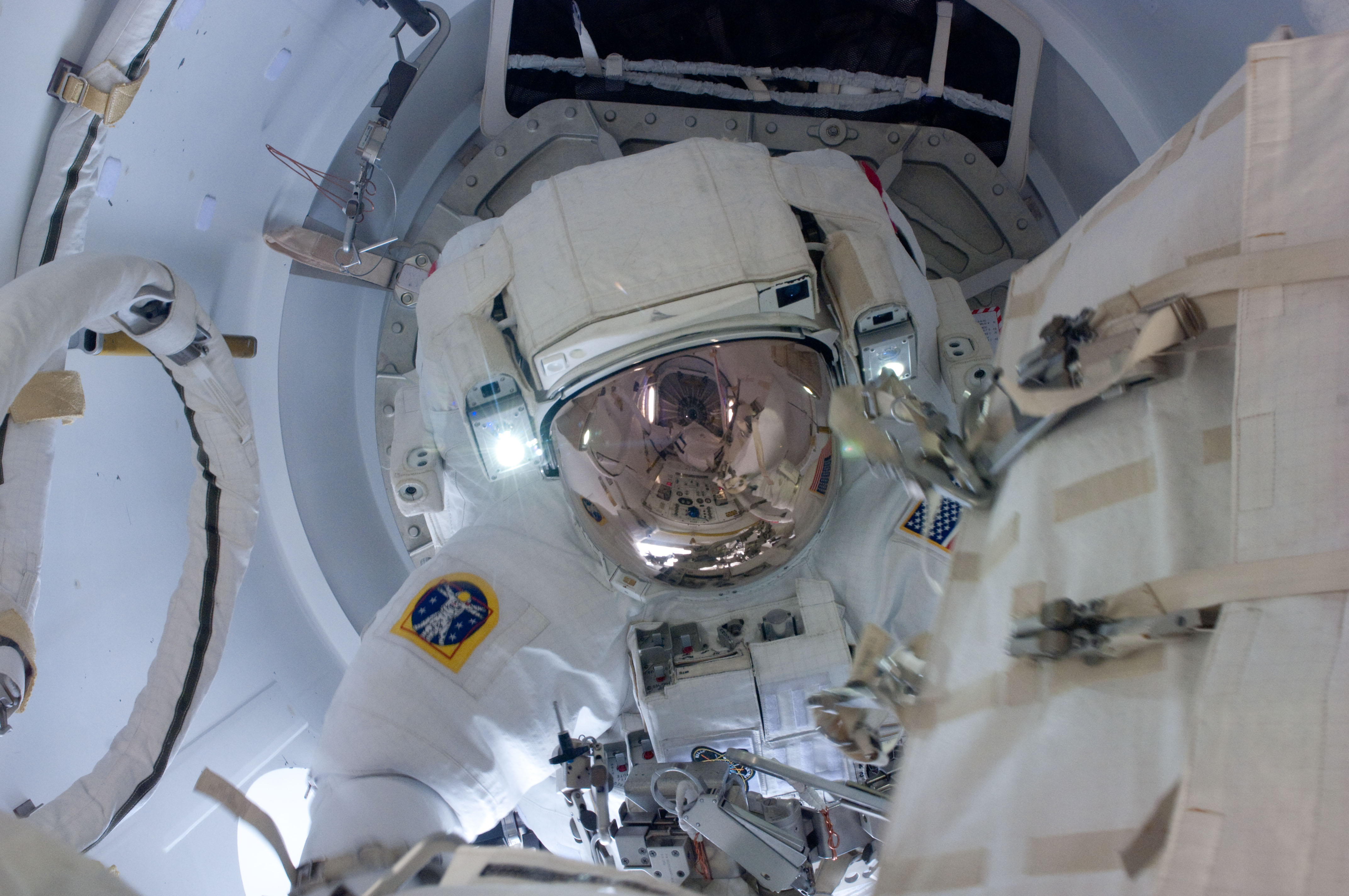 Attired in his Extravehicular Mobility Unit (EMU) spacesuit, NASA astronaut Greg Chamitoff, STS-134 mission specialist, exits the International Space Station's Quest airlock to begin the first session of extravehicular activity (EVA) for the STS-134 mission. Astronaut Andrew Feustel (out of frame), mission specialist, joined Chamitoff on the spacewalk.